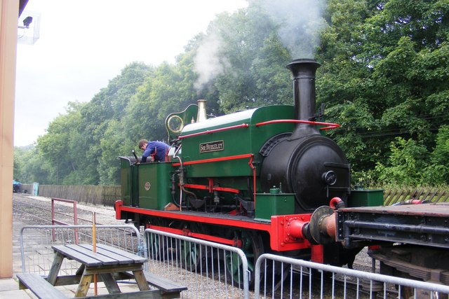 Locomotive "Sir Berkeley" in steam at Ingrow West Repainted in early 1998 to a light apple green livery, reminiscent of the Cranford Ironstone Quarry livery where it worked but unkindly referred to as "Kermit Green".